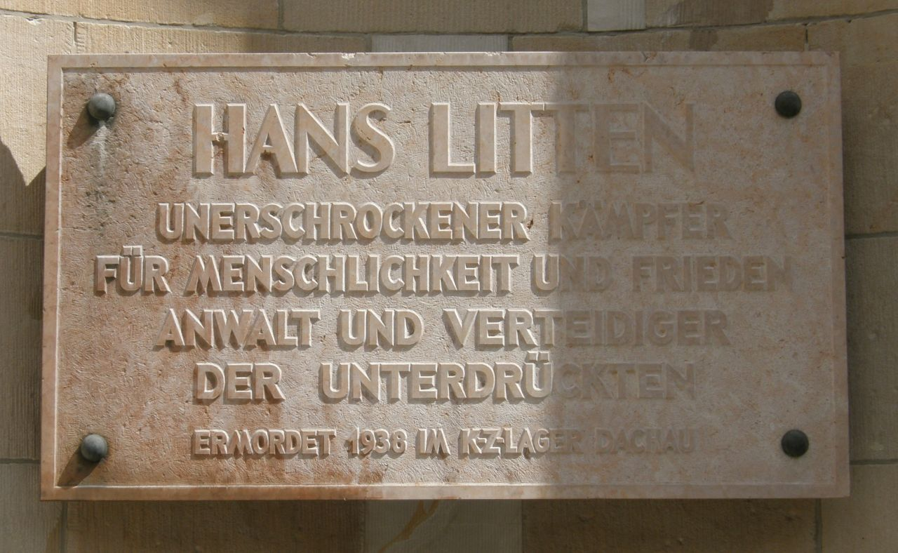 Memorial plaque for Hans Litten at the Landgericht Berlin (Berlin District Court), Littenstraße 14-15. Unveiled in 1974. The plaque says, "Hans Litten, fearless fighter for humanity and peace, attorney and defender of the oppressed, murdered at Dachau concentration camp in 1938"